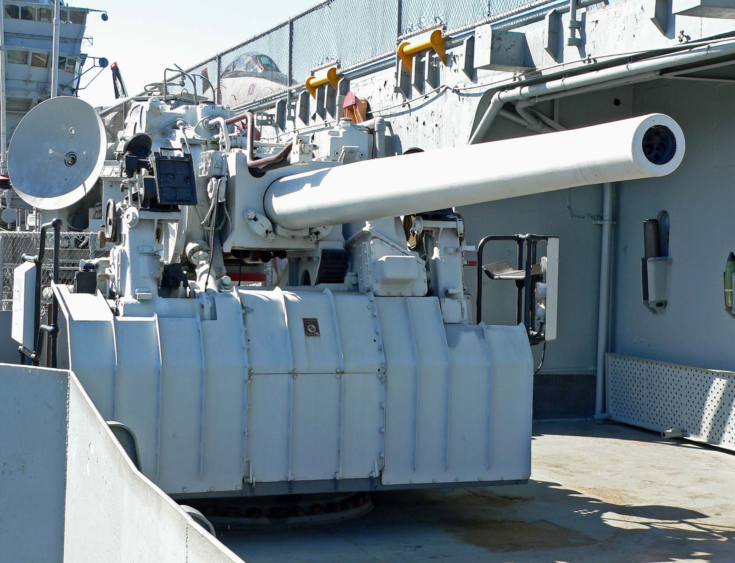 Photo of USS Hornet (CV-12) gun